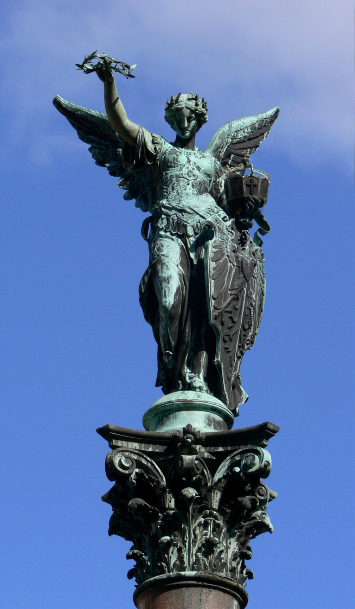 Nuremberg, Adlerstrasse, Memorial for the soldiers from Nuremberg that were killed in action during the Franco-Prussian War of 1870/71. Sculpture of Victoria designed by Friedrich Wanderer, cast by Christoph Lenz. Memorial inaugurated in 1876.